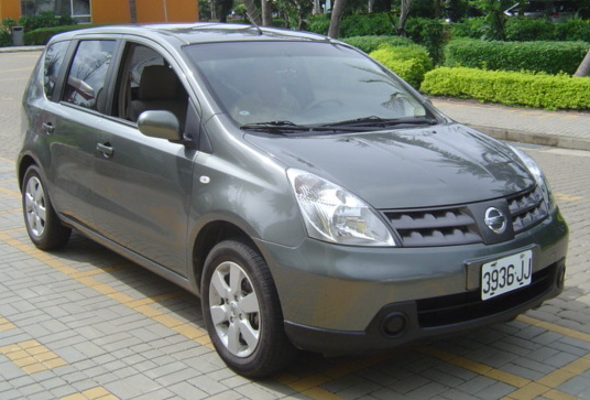 Nissan Livina